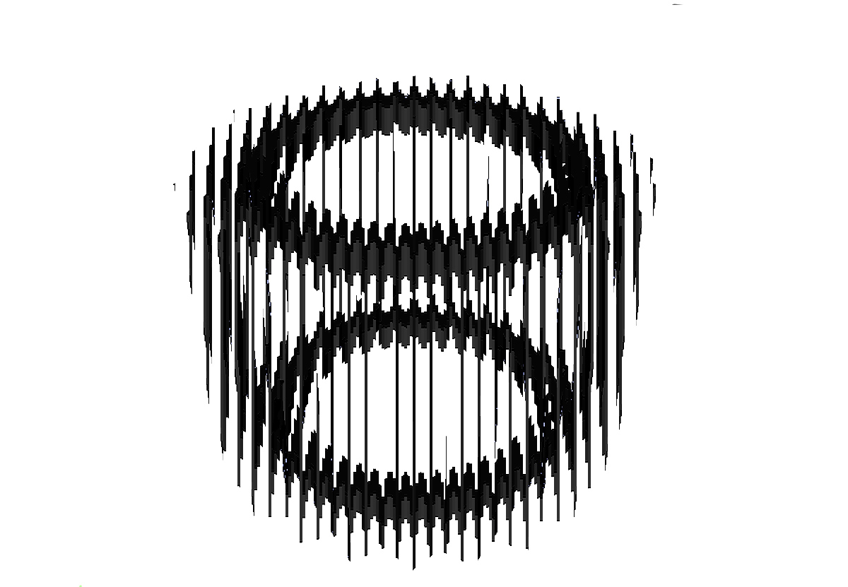 A spinning cube. NOTE: You'll need another image for this to work properly